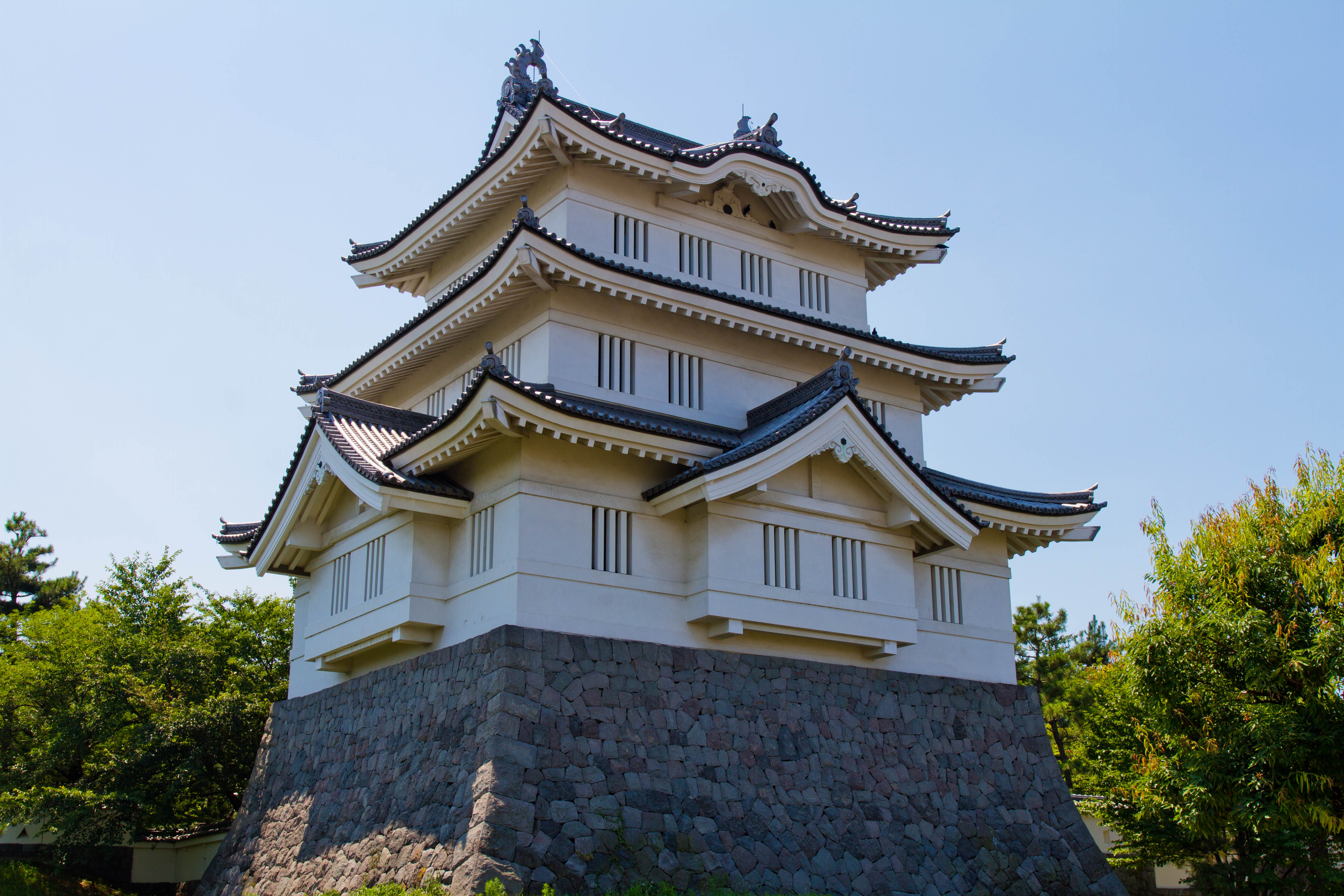 Oshi Castle, Keep Tower